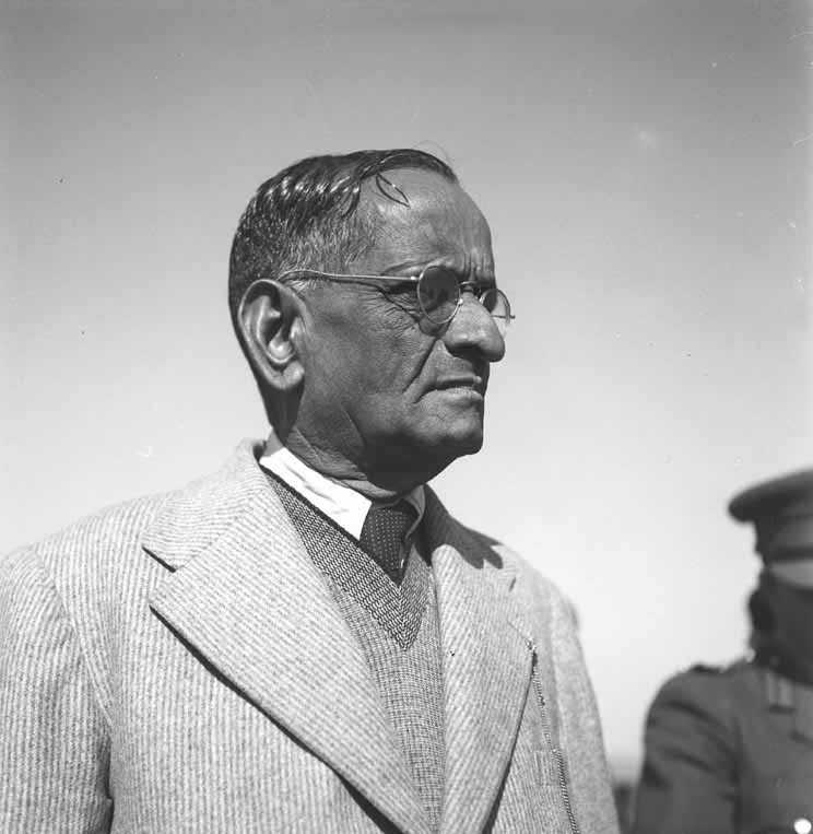 The Hon'ble Shri Gopalaswamy Ayyangar.